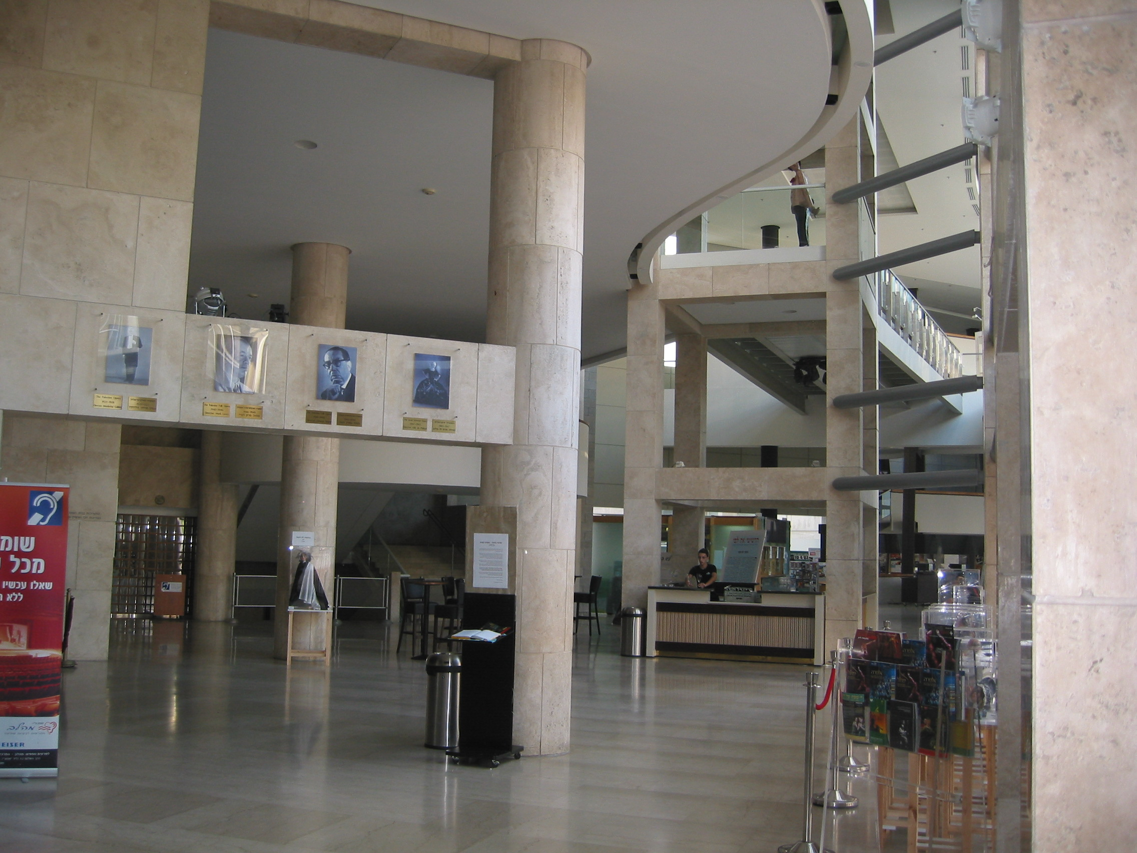 Performing Arts Center, Tel Aviv